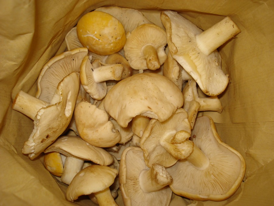 Sasso Pisano